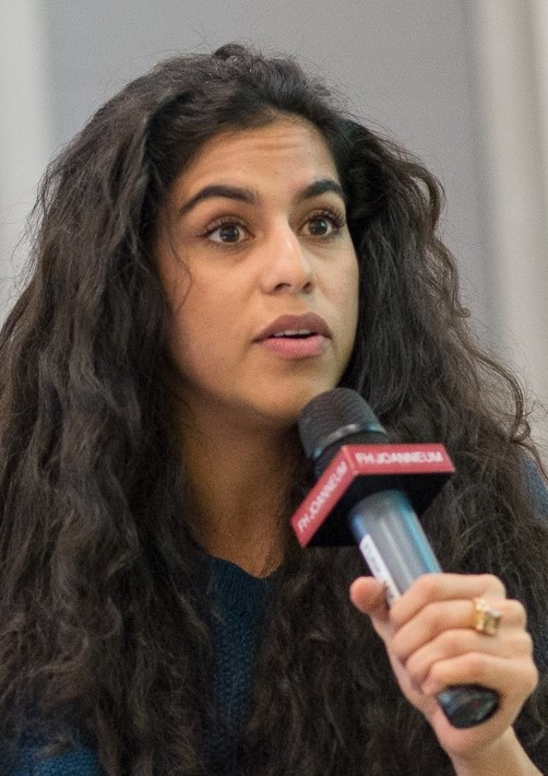 Mona Chalabi speaking at a symposium at FH Joanneum in December 2013